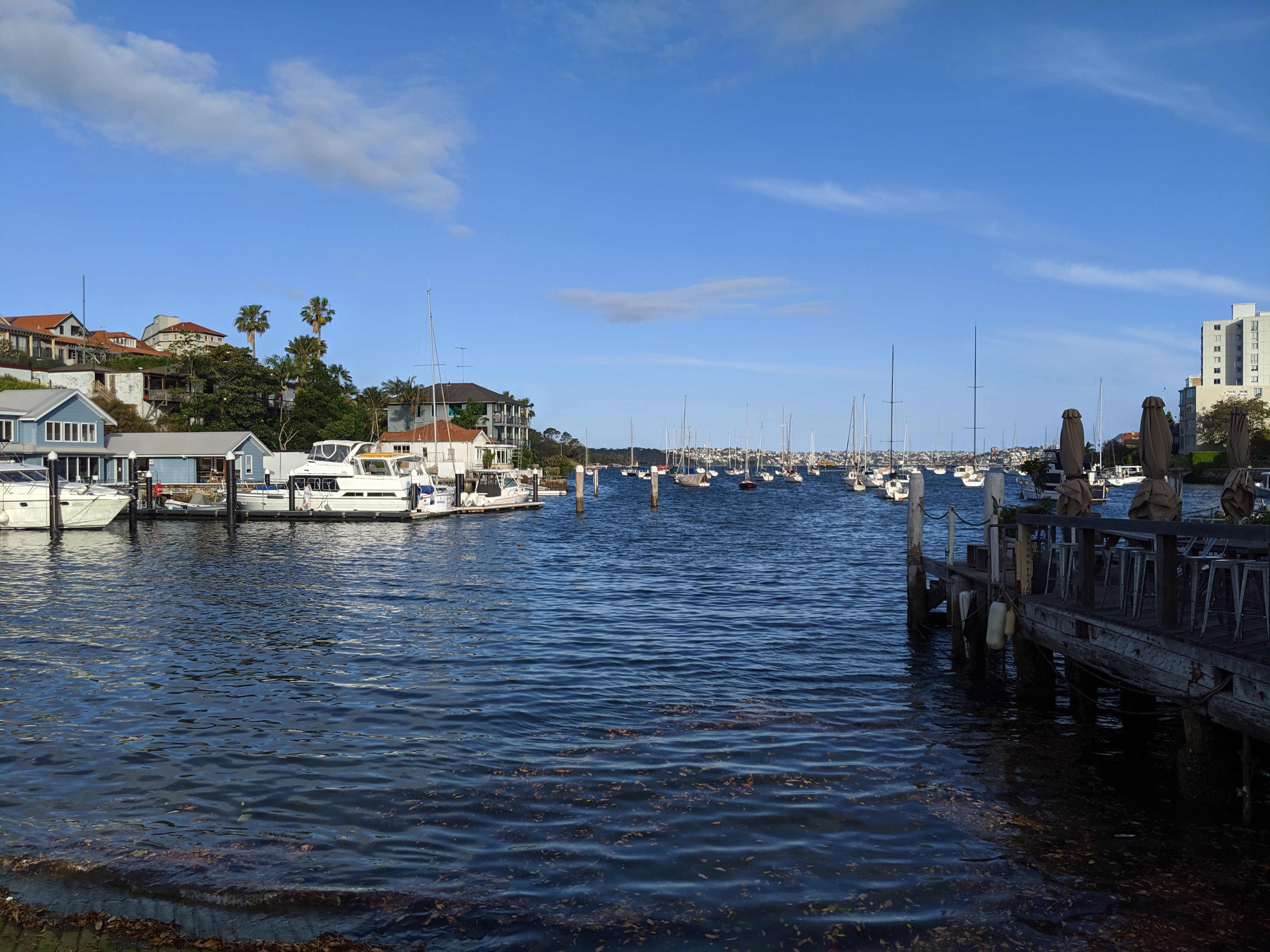 Careening Cove an hour before sunset.